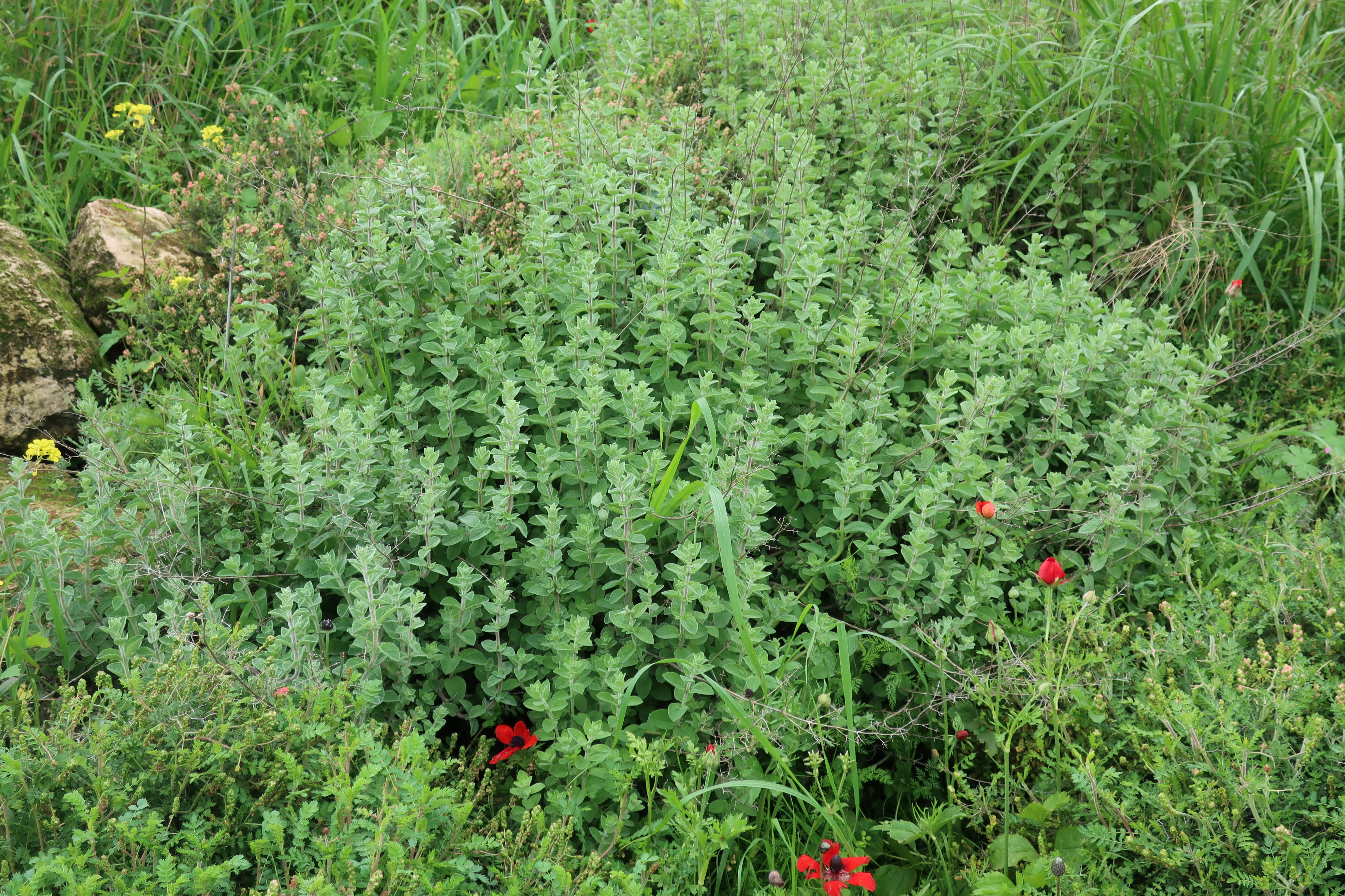 Zaatar (eizov) - Origanum syriacum, growing in the Judean mountains